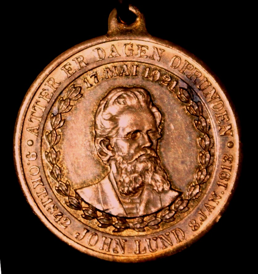 Medal Commemorating Norwegian (Bergen) liberal politician, mayor of Bergen, MP and president of the Upper House of Norw. Parliament John Th. Lund on Norw. National Day (17th of May) 1921 and 1922